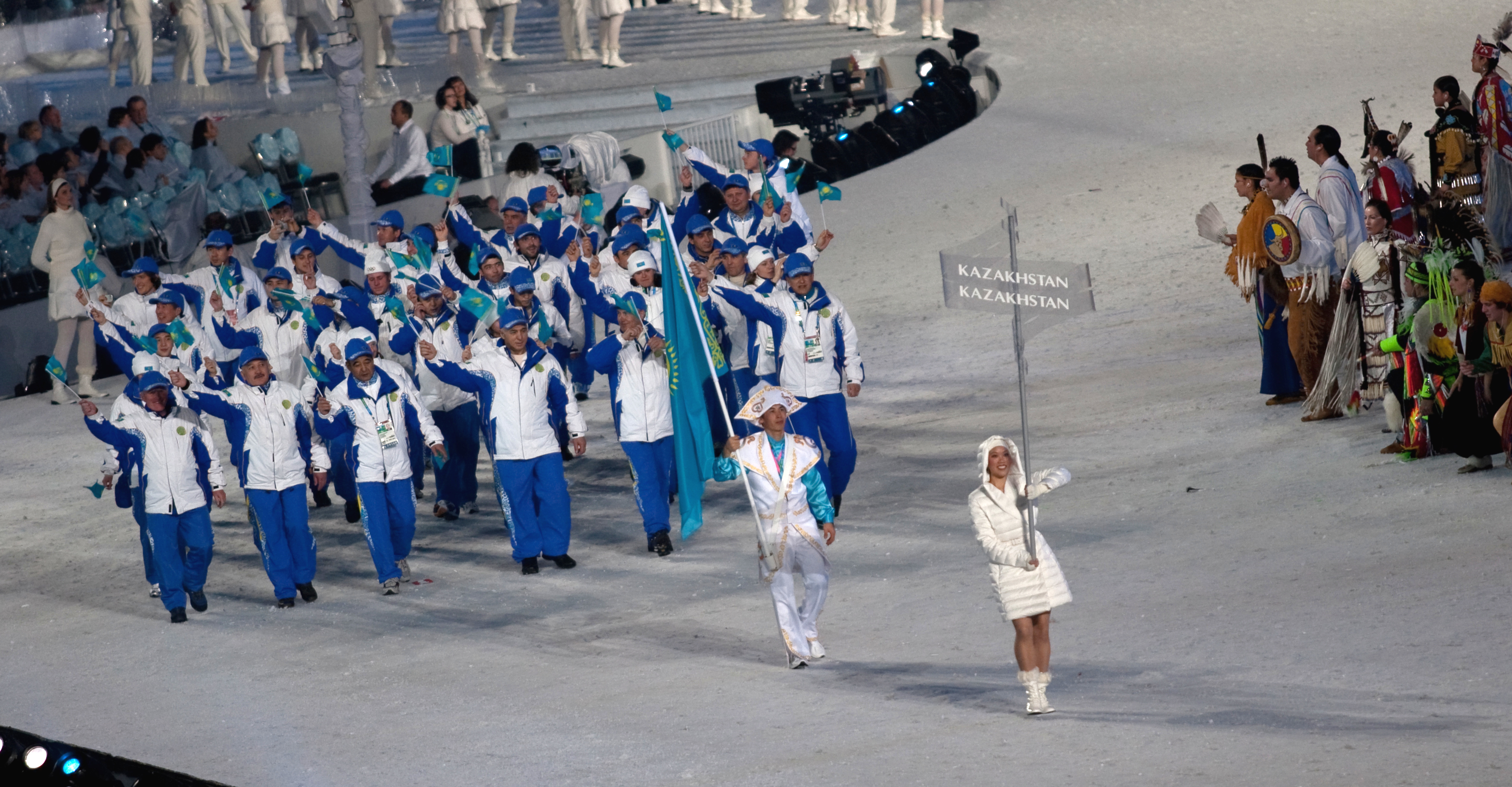 The athletes from Kazakhstan entering the stadium at the opening ceremonies of the 2010 Winter Olympics